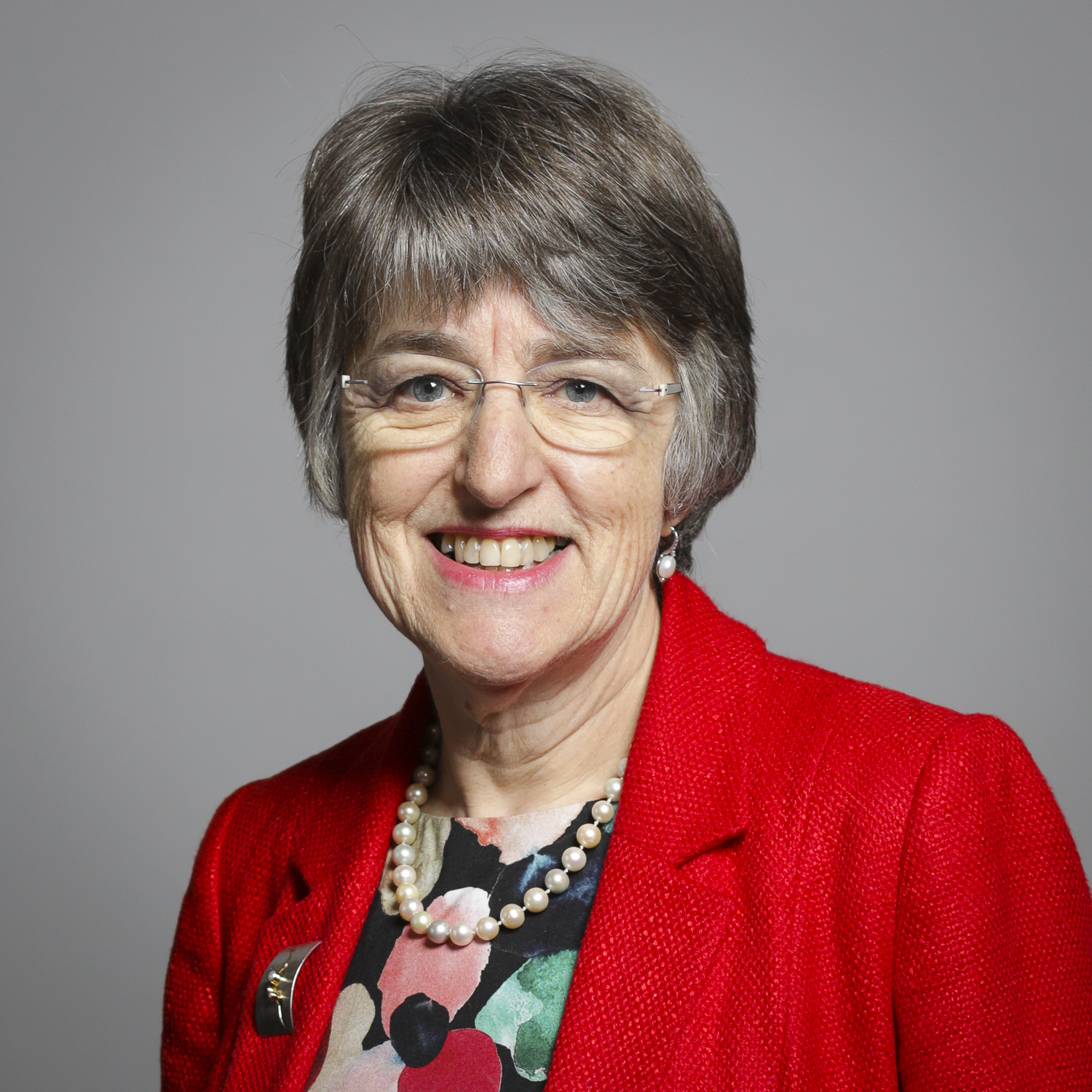 Official portrait of Baroness Finlay of Llandaff 1×1 portrait of Baroness Finlay of Llandaff